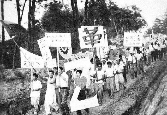 Yamagishi-Kai members in 1959